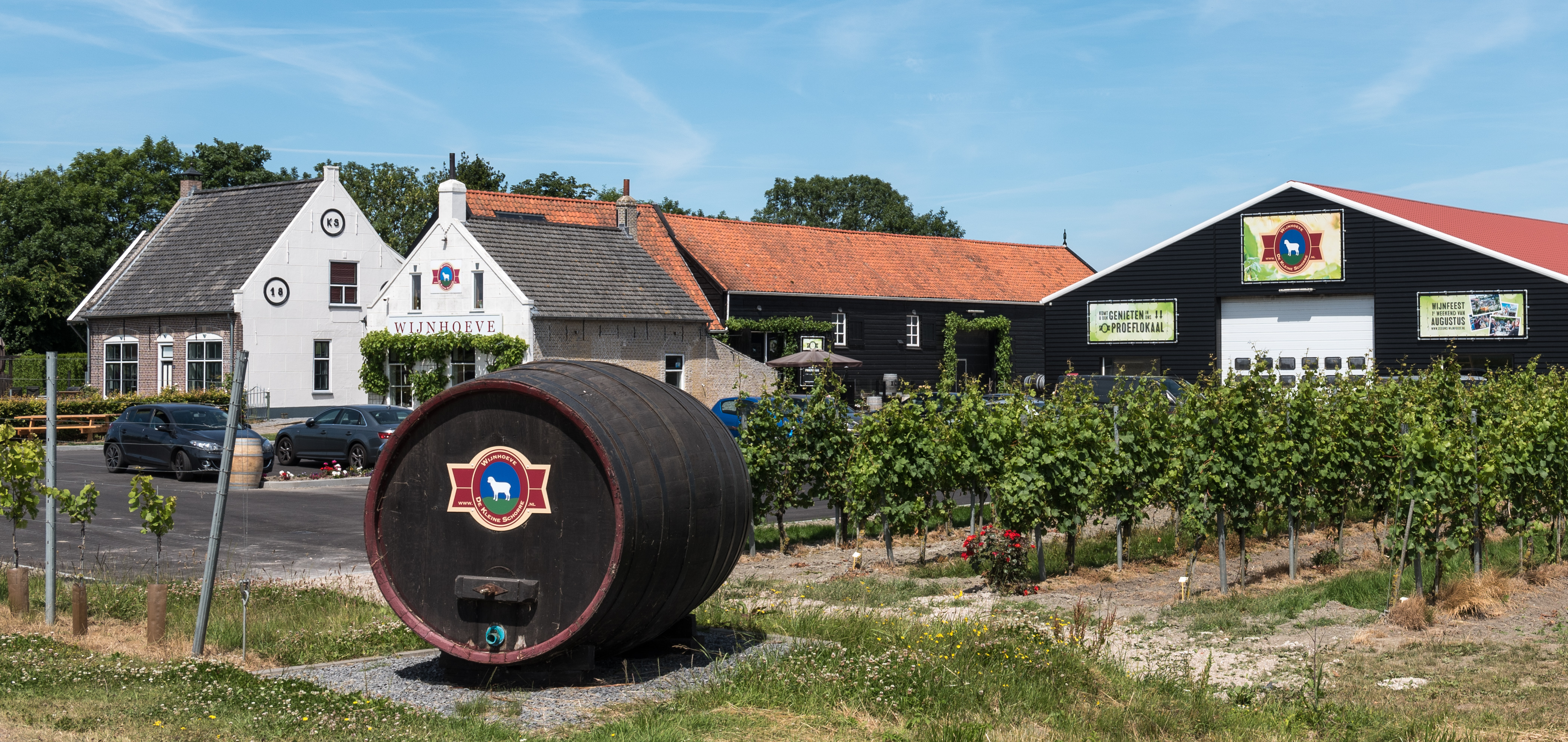 Dutch Vineyard De Kleine Schorre in Dreischor (Province of Zeeland)